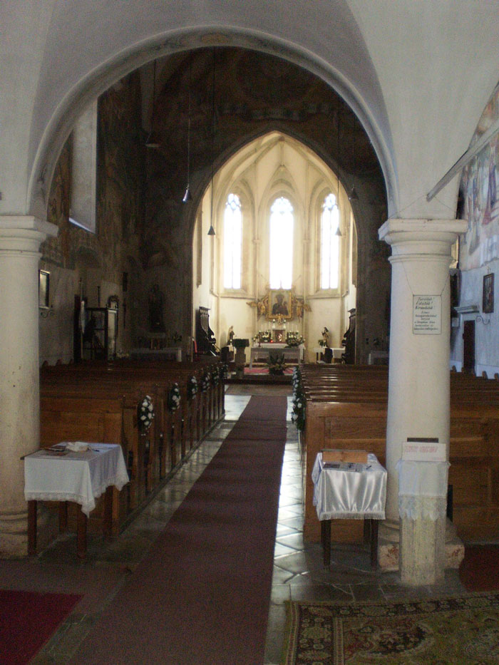 Interior of the Carmelite church, Sopronbánfalva, Sopron, Hungary